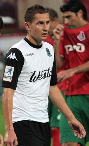 Artur Jędrzejczyk with FC Krasnodar.